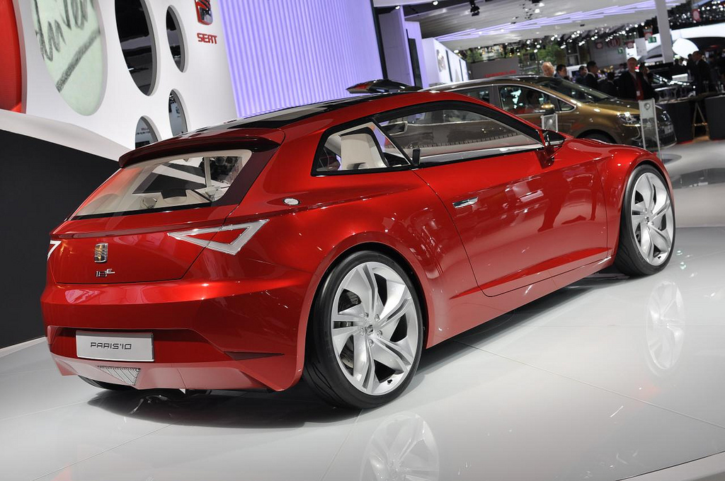 Seat Concept